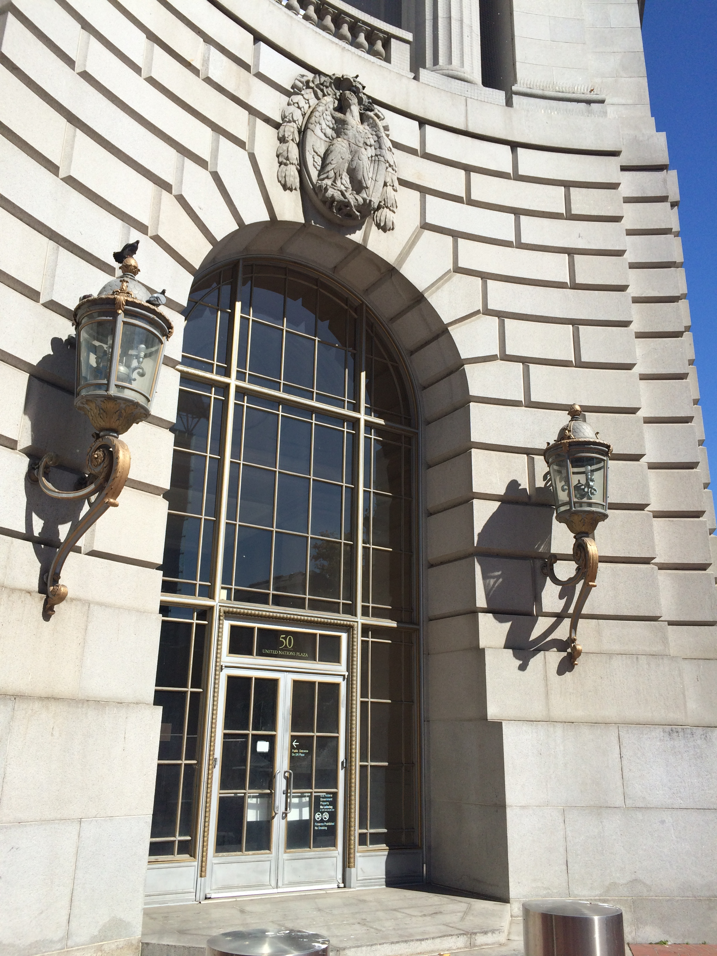 Part of the Federal Office Building in San Francisco, California at 50 United Nations Plaza.